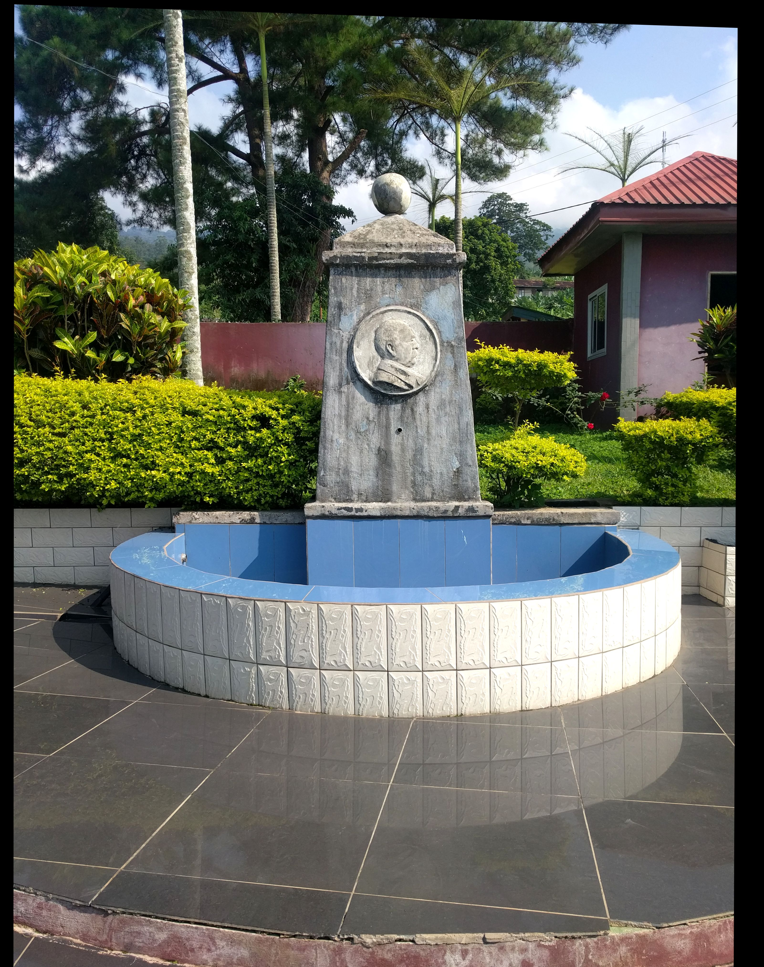 Picture presenting the Bismarck Fountain located at the foot of mount Cameroon Buea, South West Region. The fountain was built in in honour of Otto Von Bismarck ( chancellor of the German Empire from 1871 untill 1880